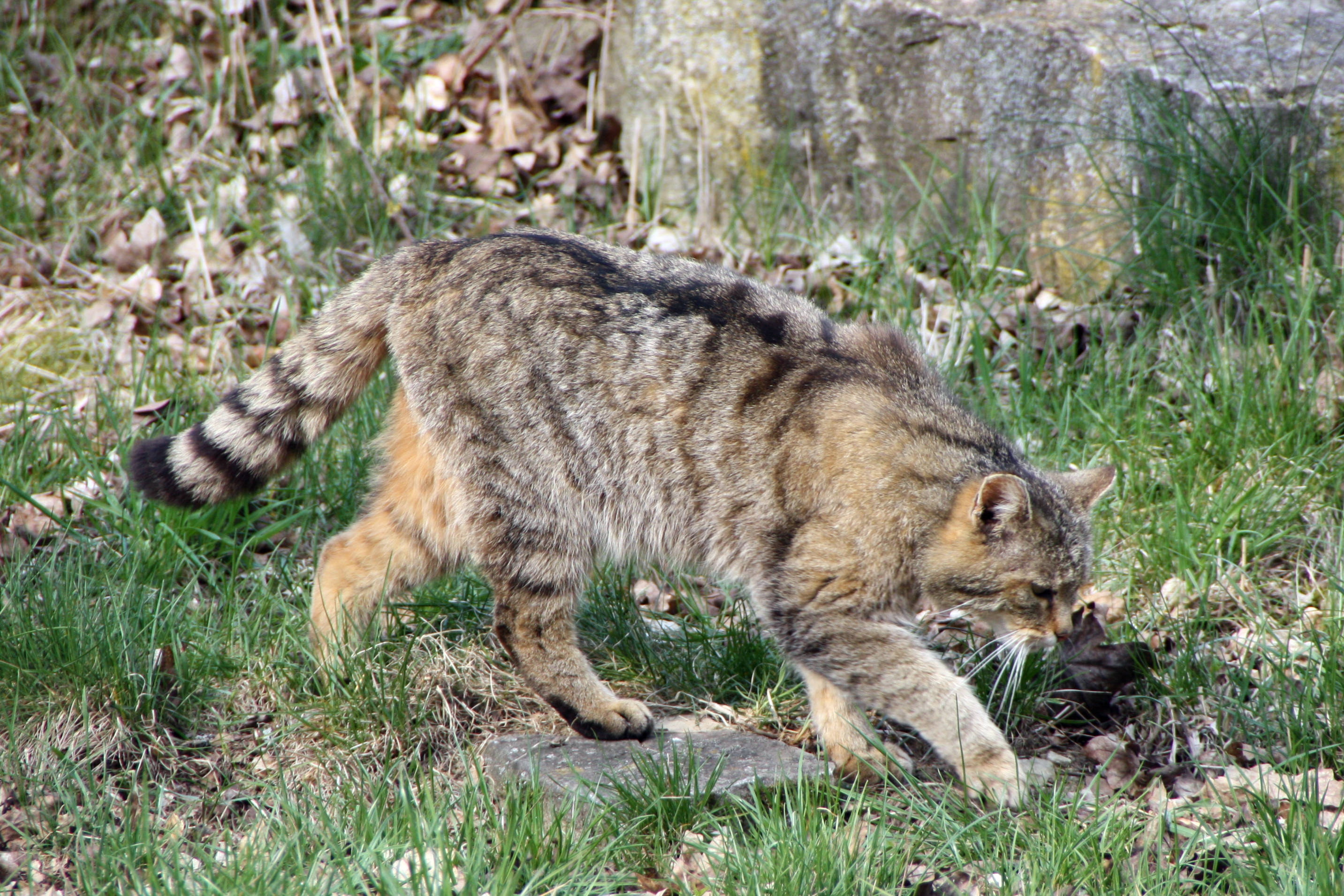 A wildcat in the wildlife park in Bad Mergentheim, Germany